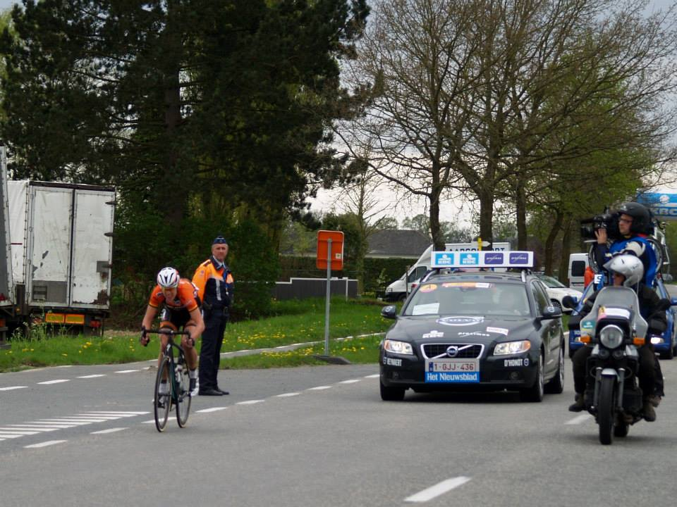 Ellen van Dijk riding to victory in the 2014 Ronde van Vlaanderen for Women